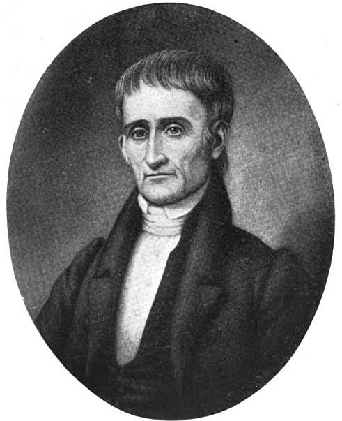 Judge John Overton (1766–1833), cofounder of Memphis, Tennessee. From: Samuel G. Heiskell, Andrew Jackson and Early Tennessee History (Nashville: Ambrose Printing Company, 1920), p. 122. Downloaded from Google Books, Full View.